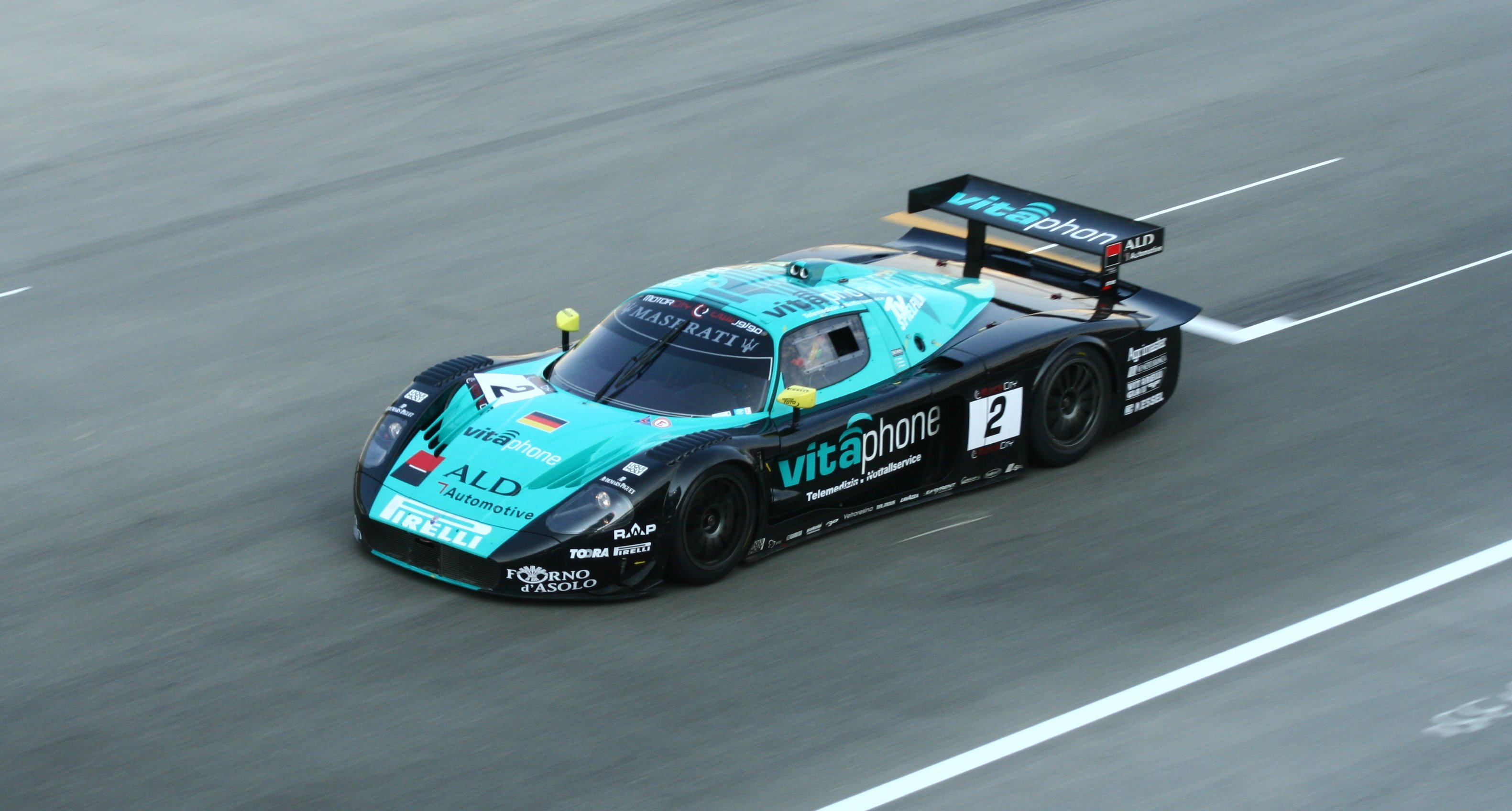 Vitaphone Racing's Maserati MC12 at the 2006 FIA GT Motorcity 500